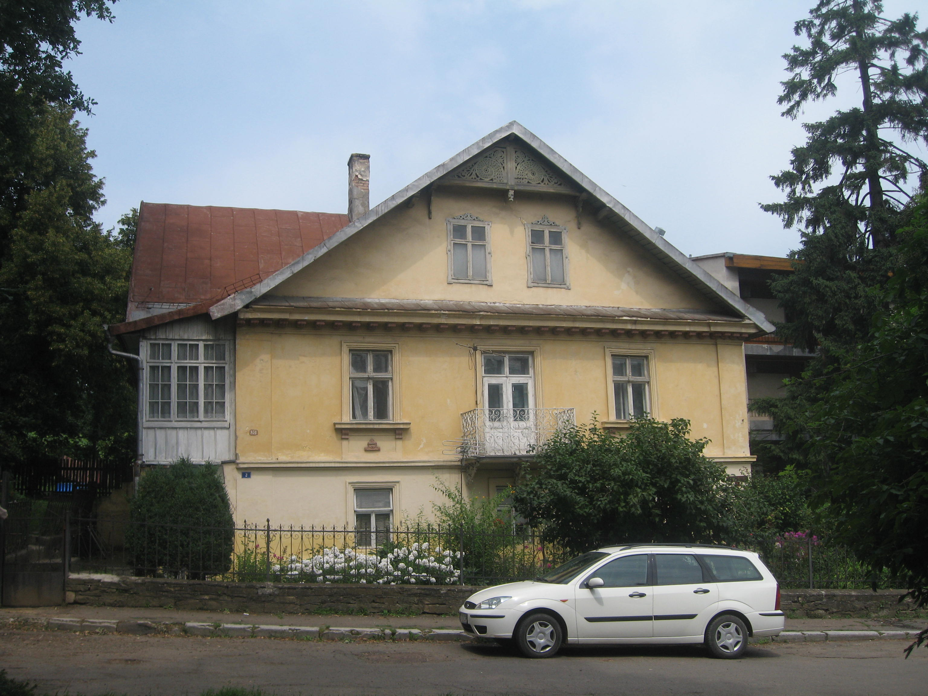 Costin Tarangul House in Suceava (Simeon Florea Marian Street, 2).